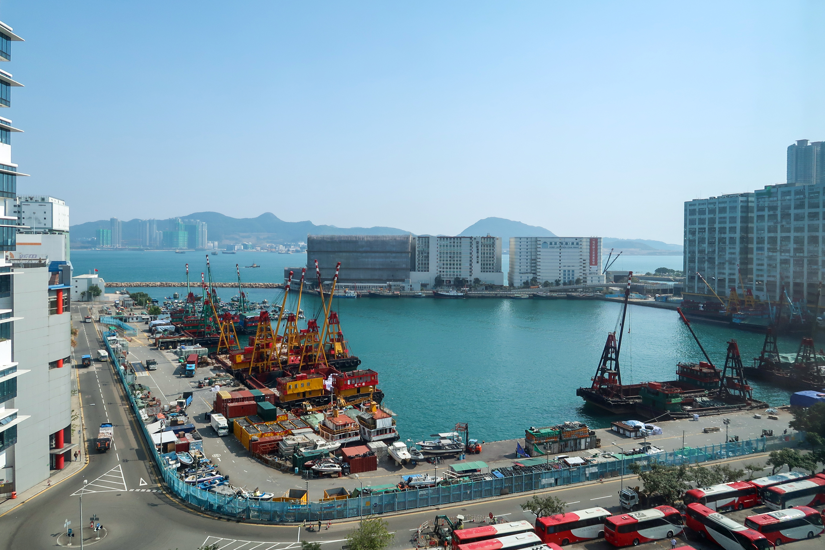 Chai Wan Public Cargo Working Area